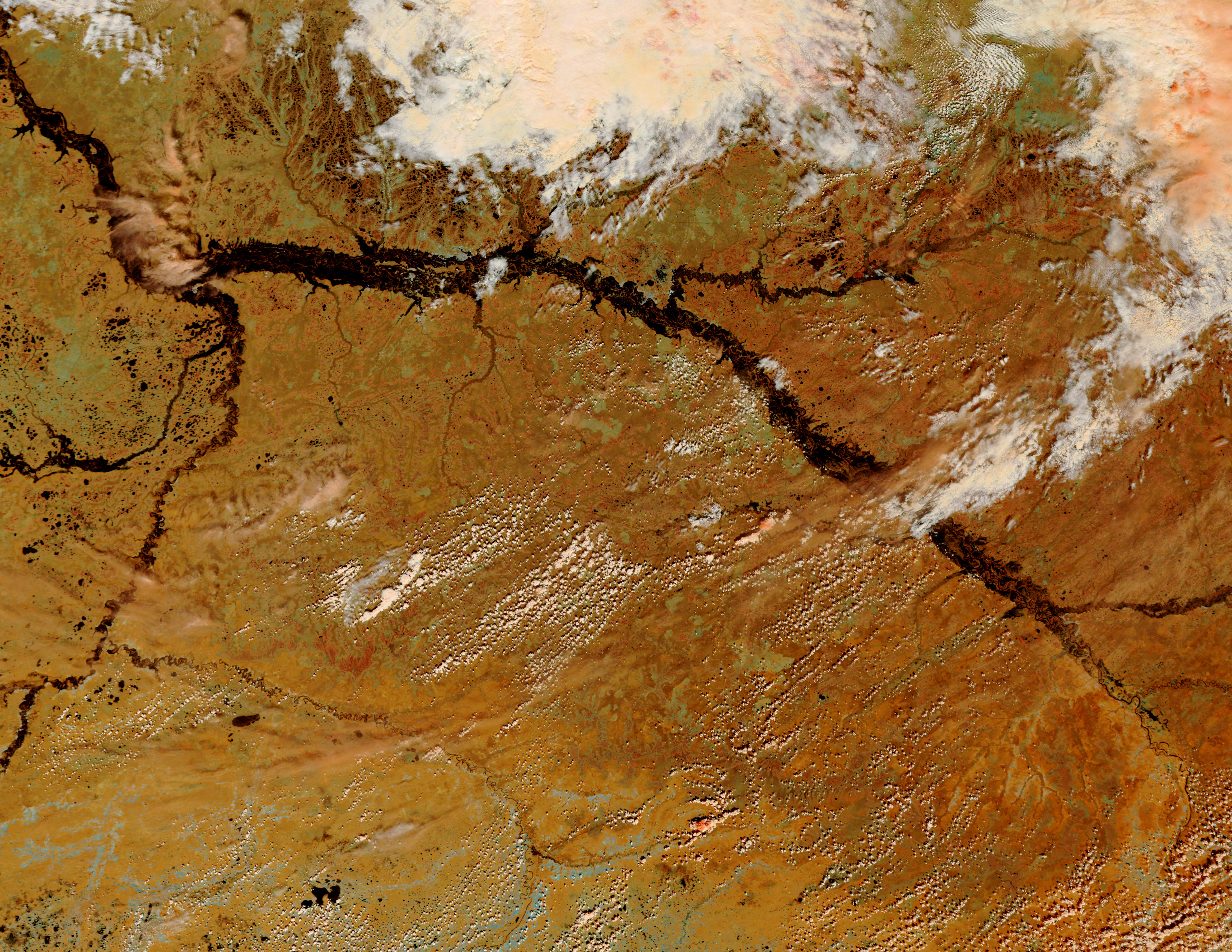 FLOODING IN WESTERN SIBERIA. June.2002